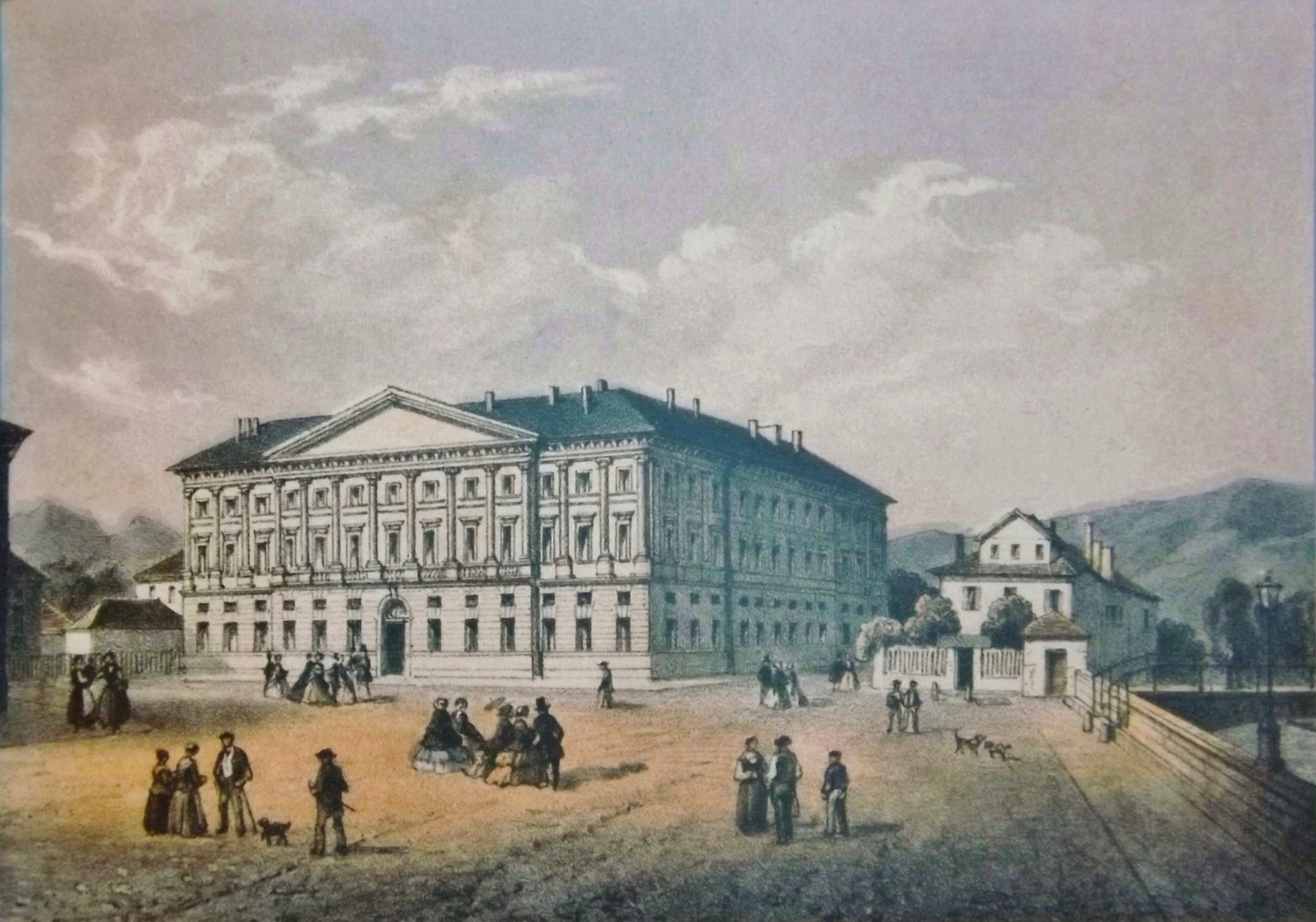 The city of Chambéry courthouse (Savoie, France) and the river Leysse on the right.